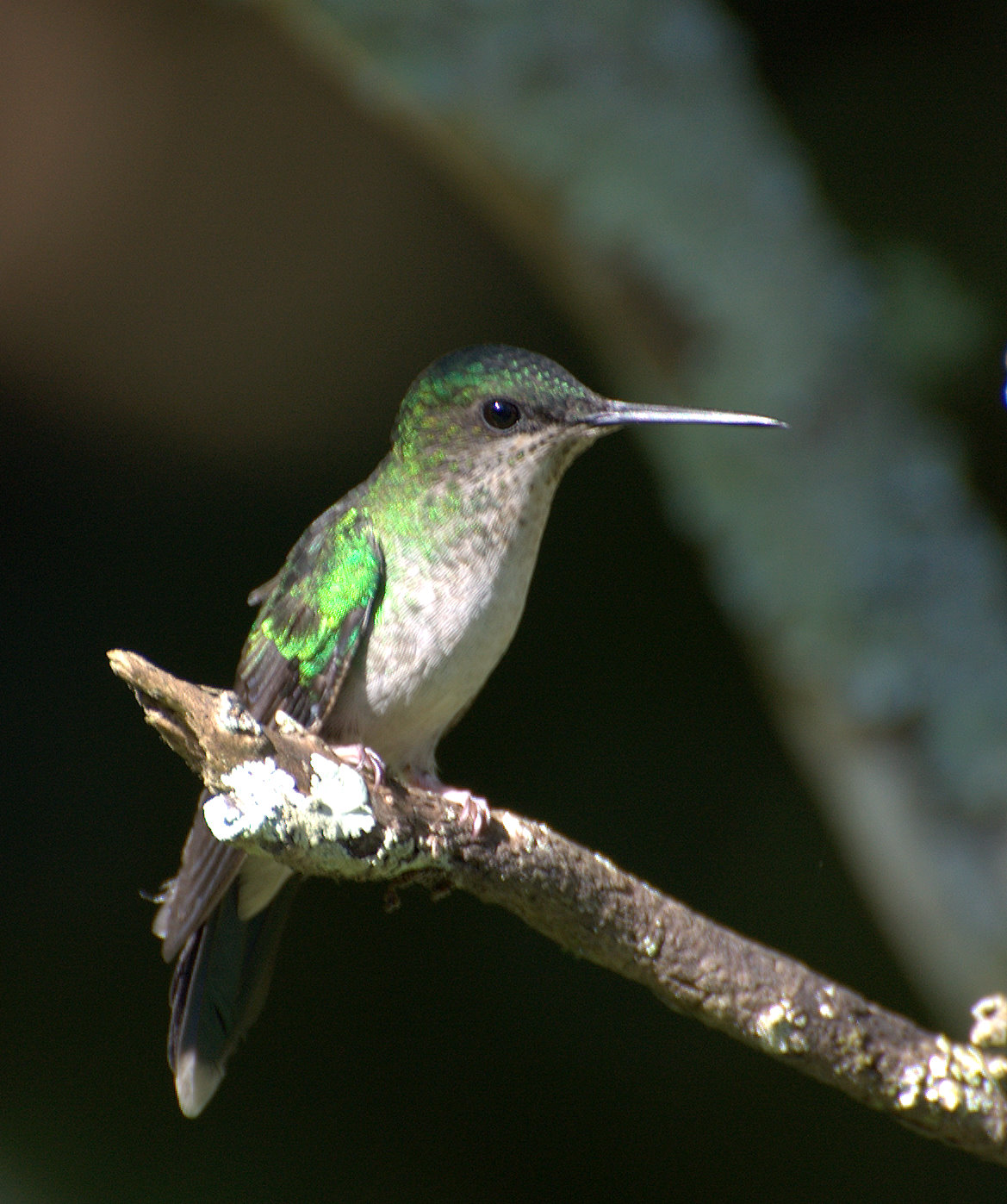 Female Thalurania glaucopis, from Brazil